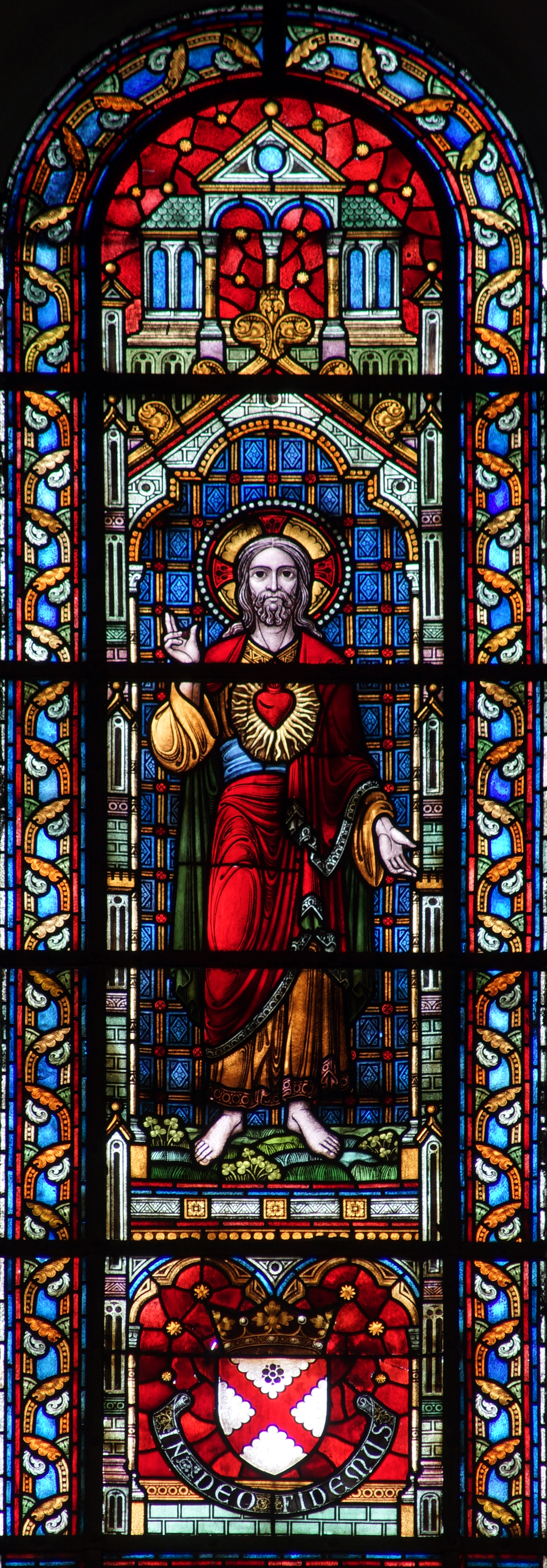 Jumet - Church of the Immaculate Conception - Stained-glass window of the Sacred Heart - Created by Gustave Ladon